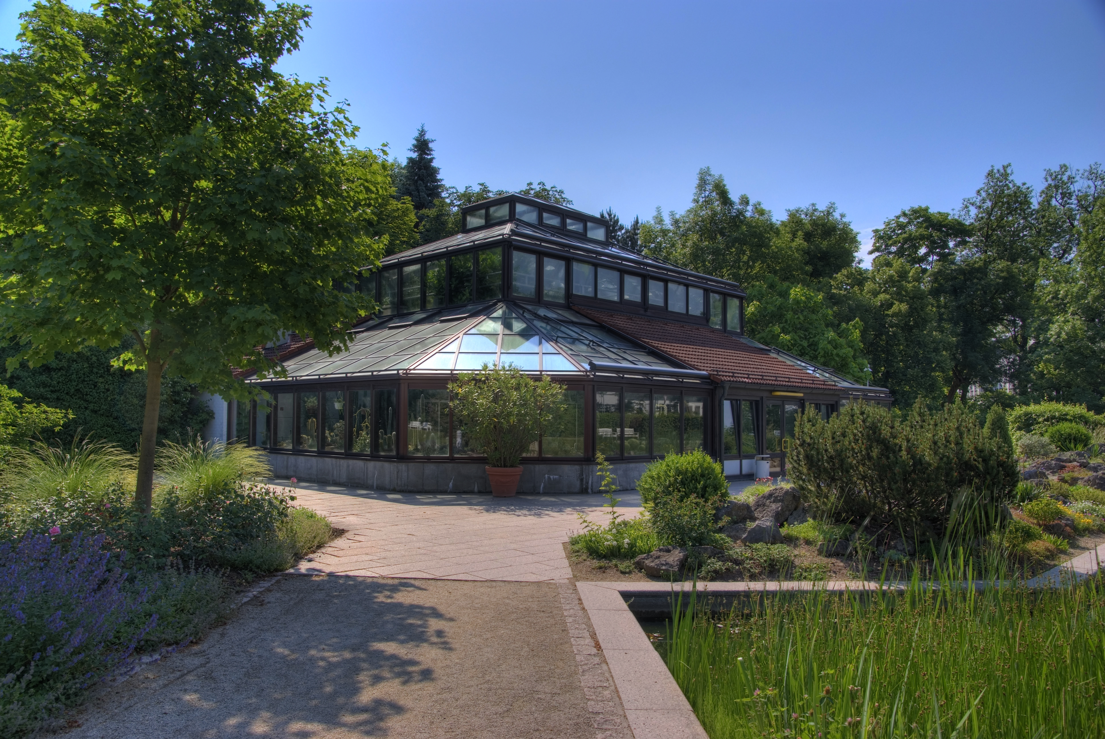 rosarium Coburg